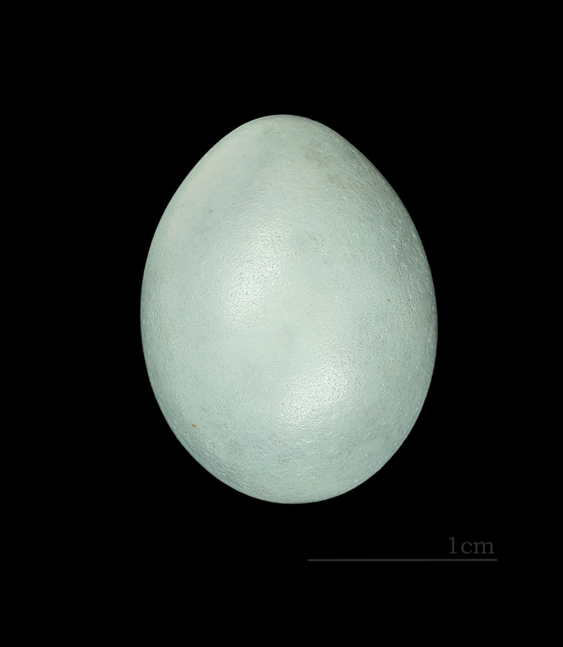 Egg of Village Weaver. Collection of Jacques Perrin de Brichambaut.